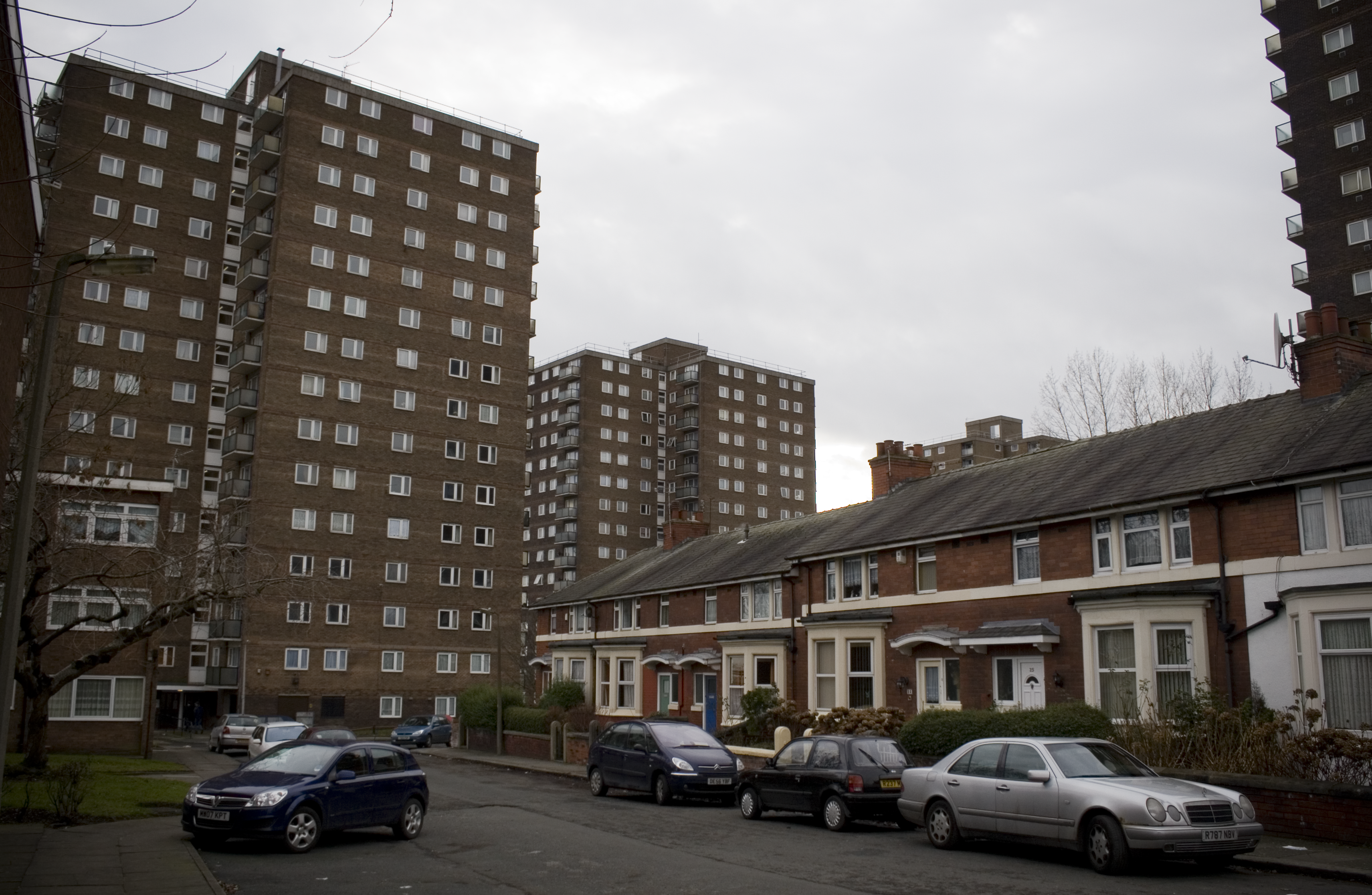 Contrasting styles of housing in Eccles - brick-built terraced, and tower blocks